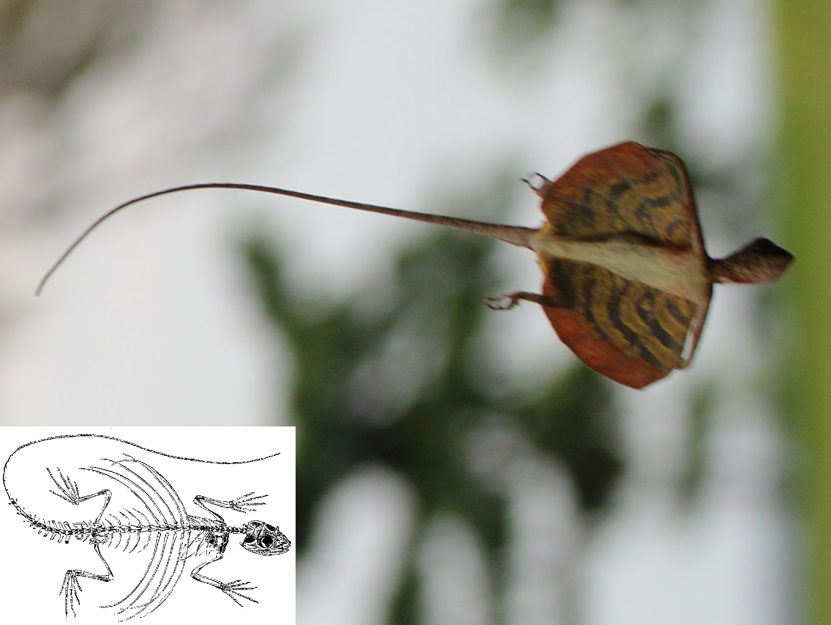 Draco taeniopterus flying and Draco volans skeleton